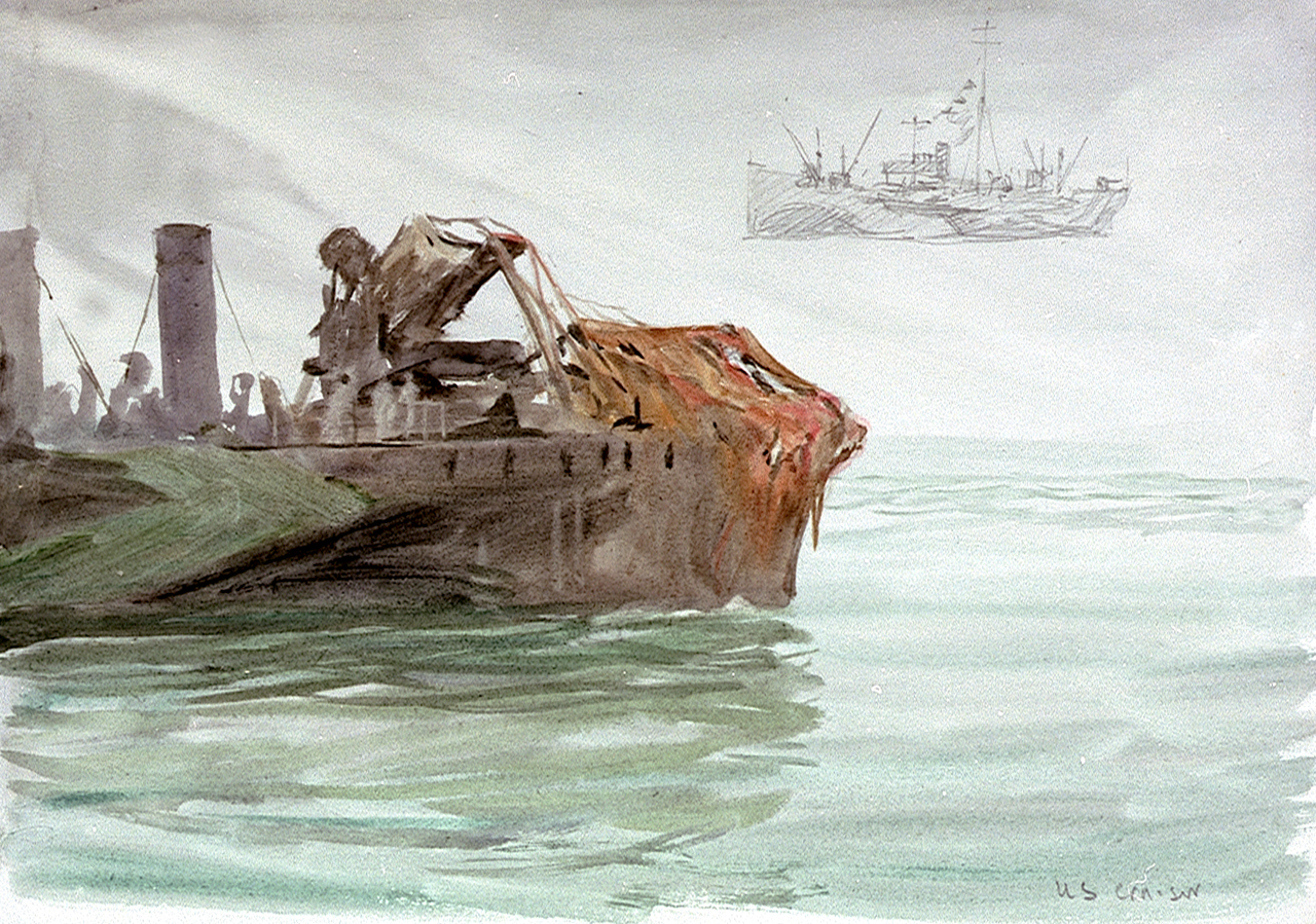 The damaged USN destroyer 'Shaw' at Portsmouth, 1918, and a dazzle-painted armed merchantman Though inscribed by the artist, 'US Cruiser', lower right, the watercolour study here is a reasonably accurate depiction of the American destroyer 'Shaw' (1916) as she would have appeared in Portsmouth during October 1918. The 'Shaw' was escorting the troopship 'Aquitania' (1914) on 9 October 1918 when her rudder jammed and she crossed ahead of the 'Aquitania', which hit her just forward of the bridge and sliced 90 feet off the 'Shaw's' bow. The American's bridge was mangled and she caught fire, but her crew managed to get the ship into port and she remained under repair at Portsmouth until 29 May 1919, when she sailed for home. After the war, the 'Shaw' transferred to the US Coast Guard, 1926-33, and was broken up from August 1934. The merchant ship shown in the pencil sketch at top right bears a strong resemblance to a War Standard D-type collier of which 27 were built in British shipyards during 1918 and 1919.